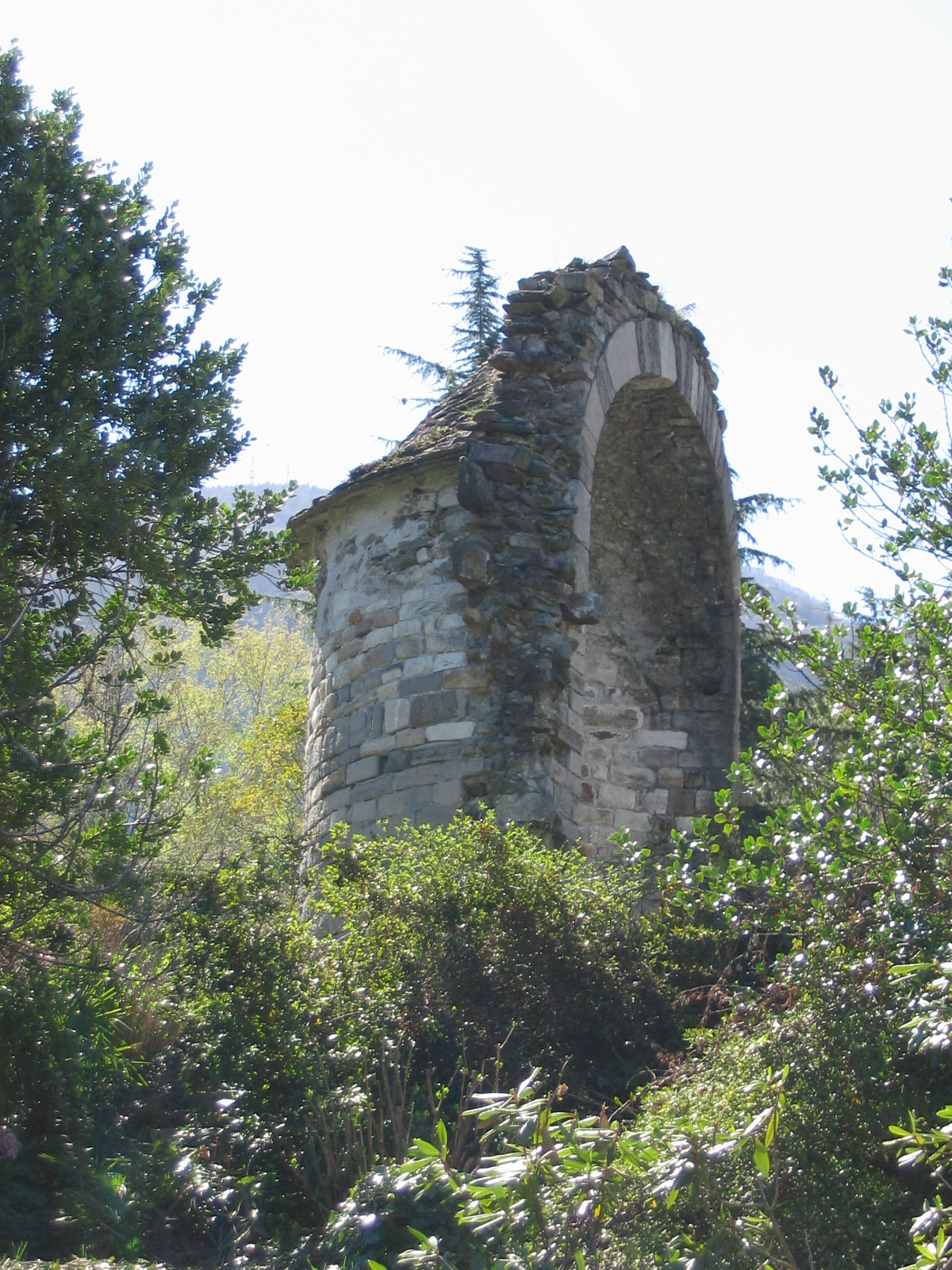 Priorato di Piona. Ruins of former Santa Giustina church. Picture by: Giorces.